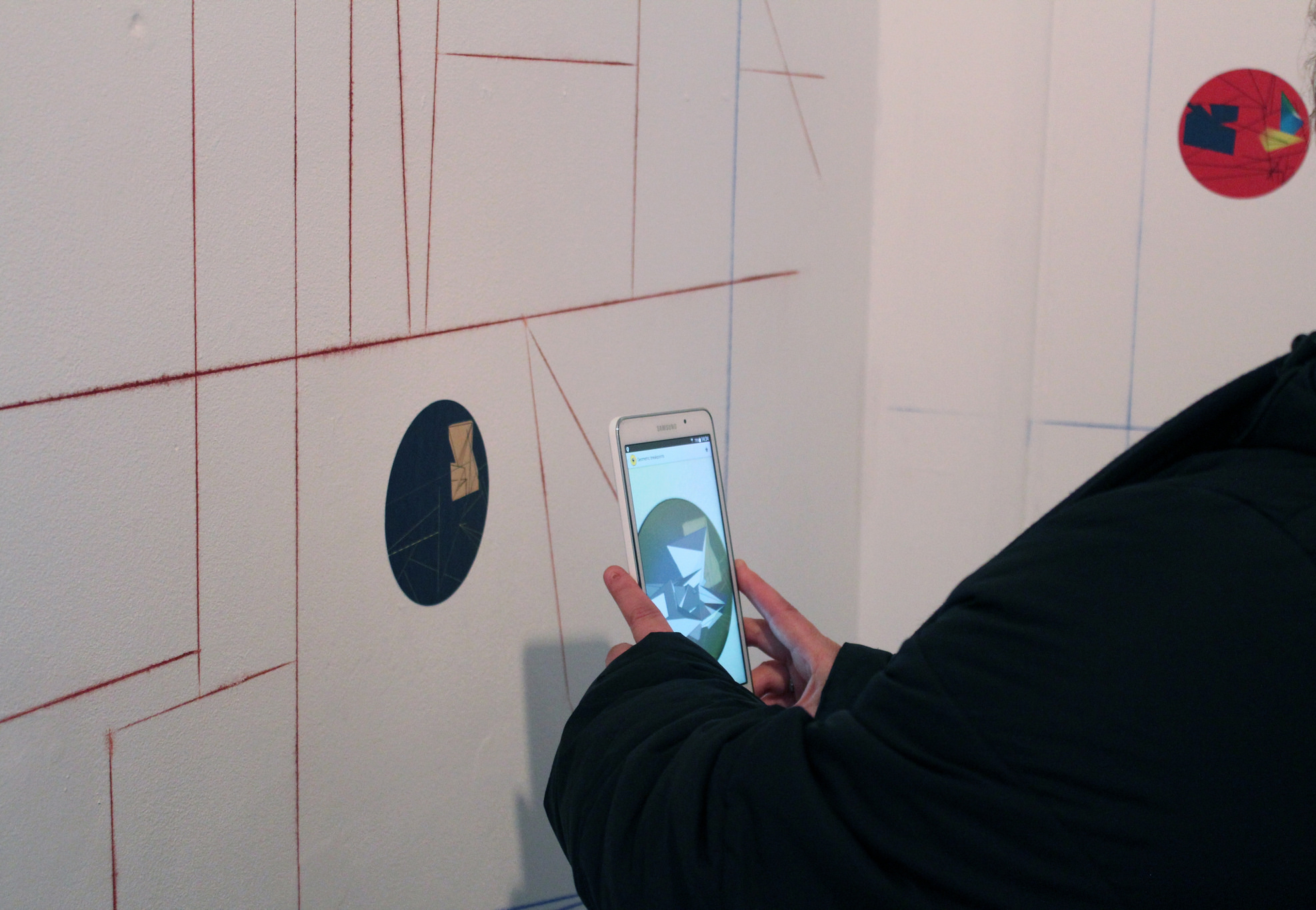 Augmented Reality solo show "Dimensioning - Live Architectures" at Furtherfield gallery London, April 2016.